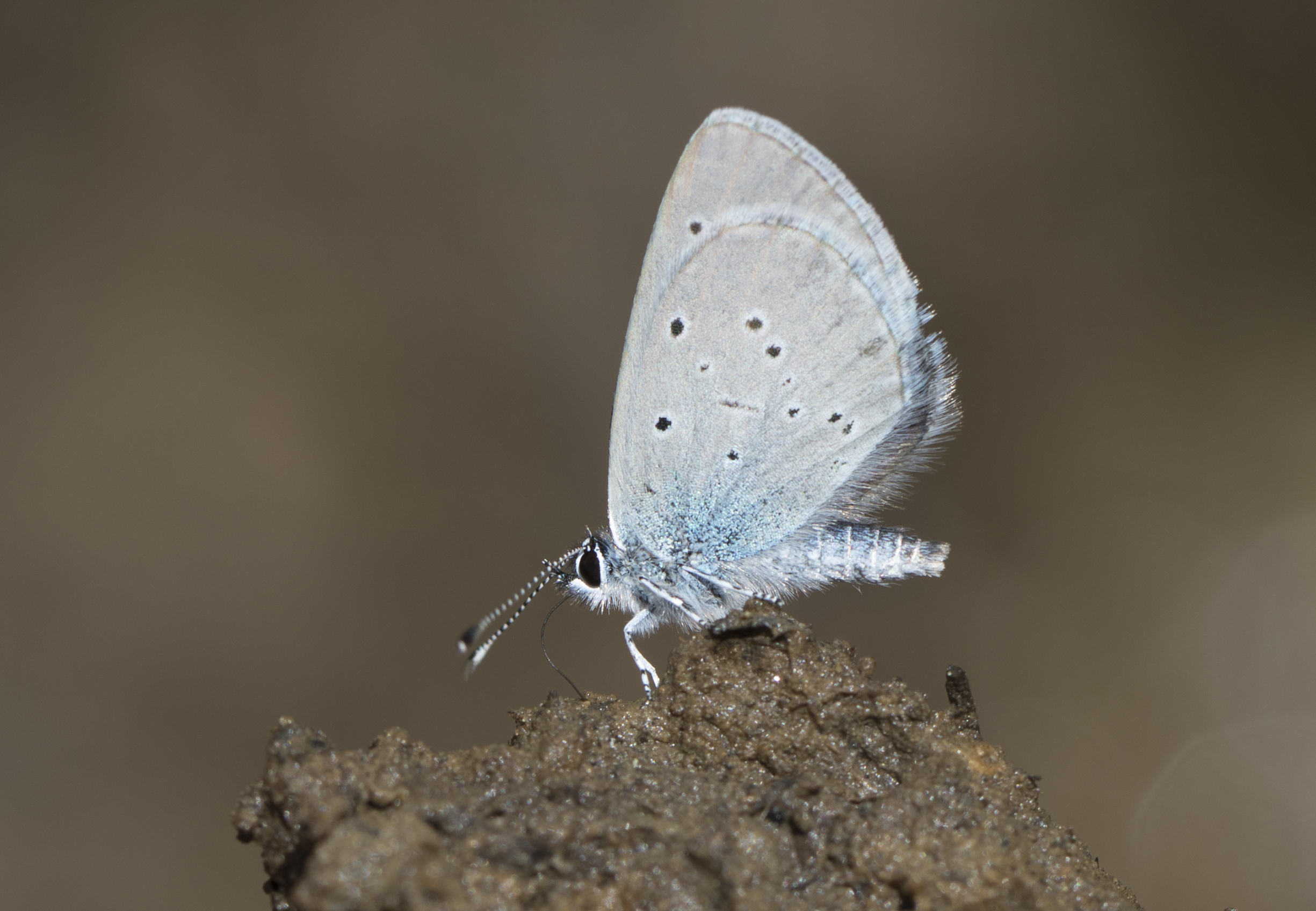 Wing underside view of male "Osiris blue" (Cupido osiris). Cöbük Forest, Saimbeyli - Adana, Turkey.